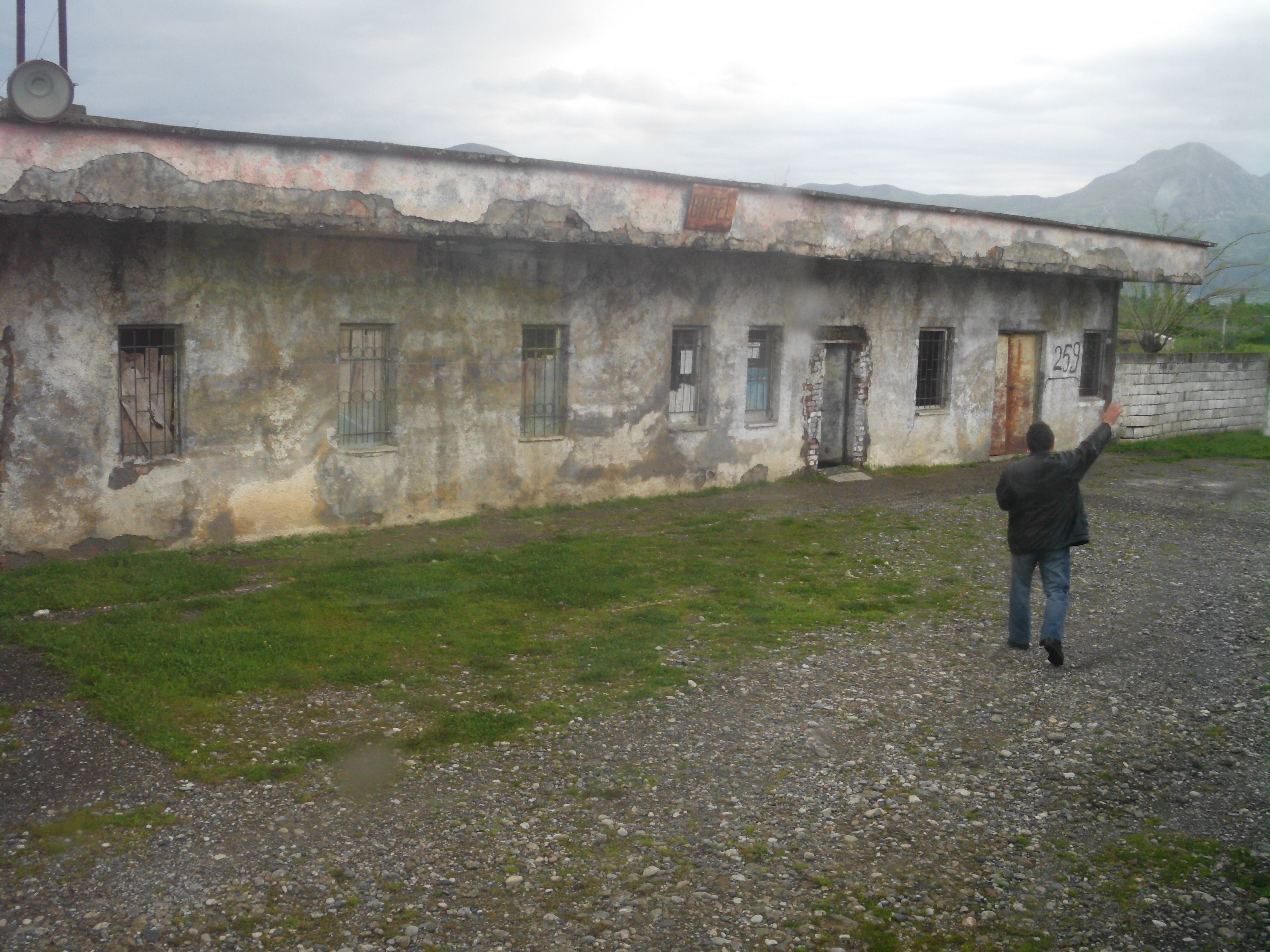 Train station in Baqël, Albania.